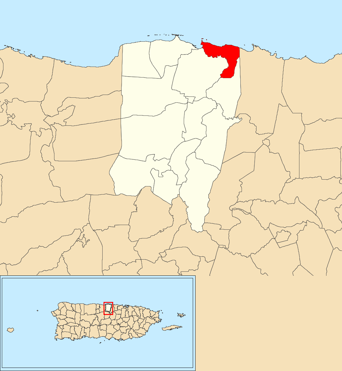 Cibuco, Vega Baja, Puerto Rico locator map